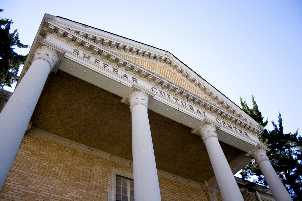 Facade of the Sheerar Museum of Stillwater History